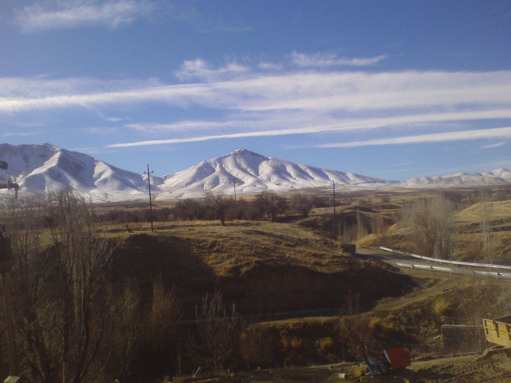 faraj abad فرج آباد روستایی زیبا در استان مرکزی شهرستان خمین